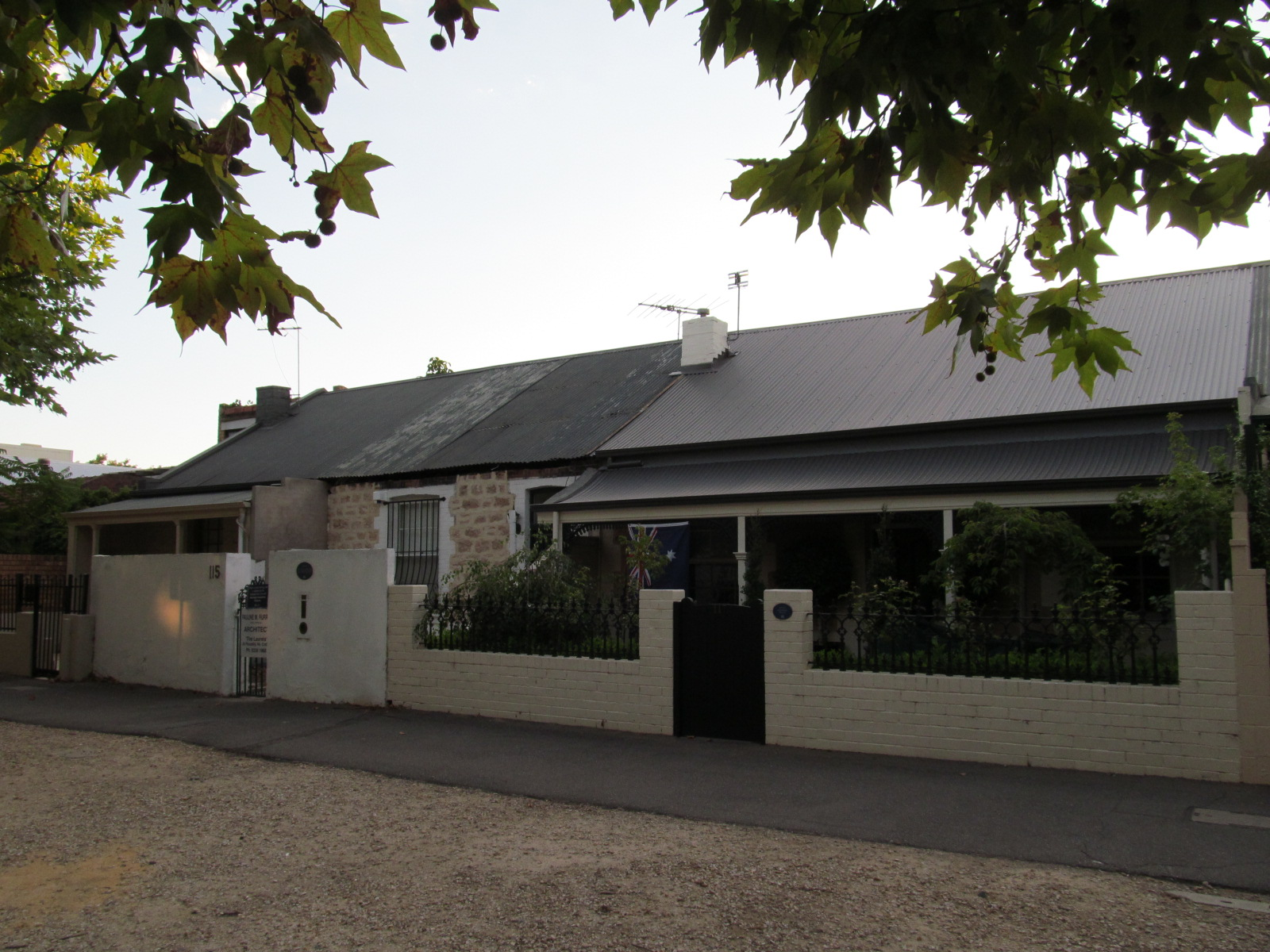 Row of houses in Jeffcott Street, North Adelaide.